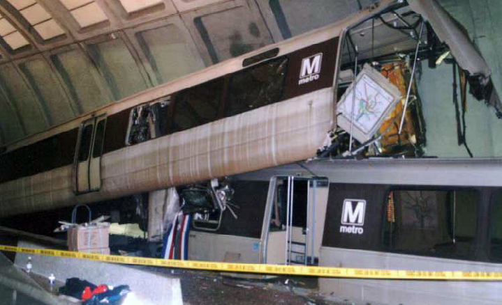 NTSB photo of the November 3, 2004 accident at the Woodley Park-Zoo/Adams Morgan station on the Washington Metro. Car 1077 is telescoped, on top of car 4018.